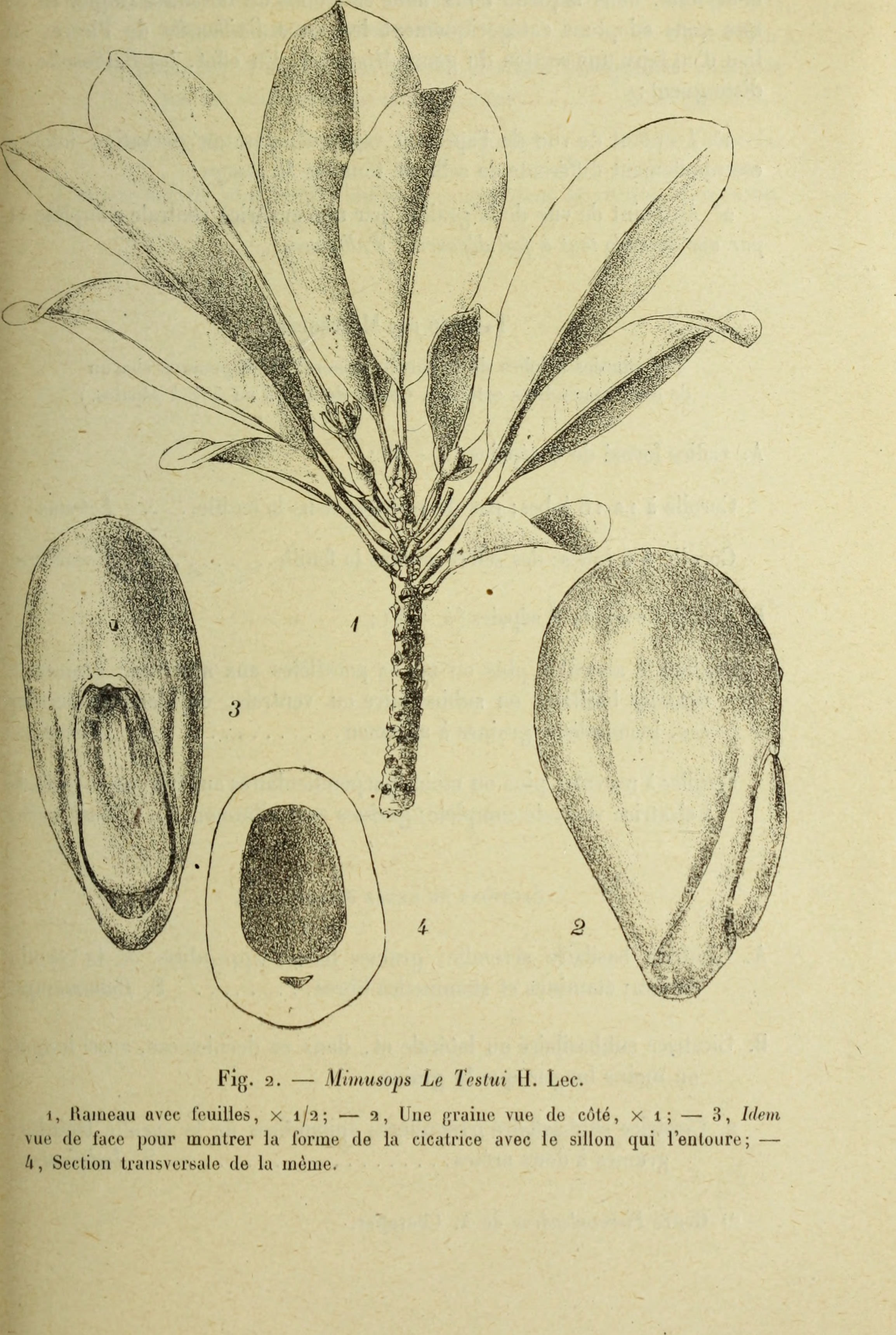 Title: Bulletin du Muséum d'histoire naturelle Year: 1895 (1890s) Authors: Muséum national d'histoire naturelle (Paris) Subjects: Natural history Publisher: Paris : Impr. nationale Text Appearing Before Image: — 537 — Text Appearing After Image: '